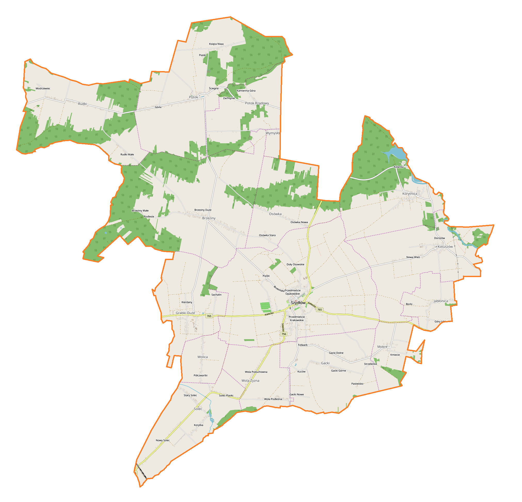 Location map